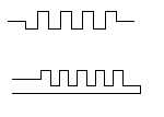 Some other symbols used for heater-coils or heating elements